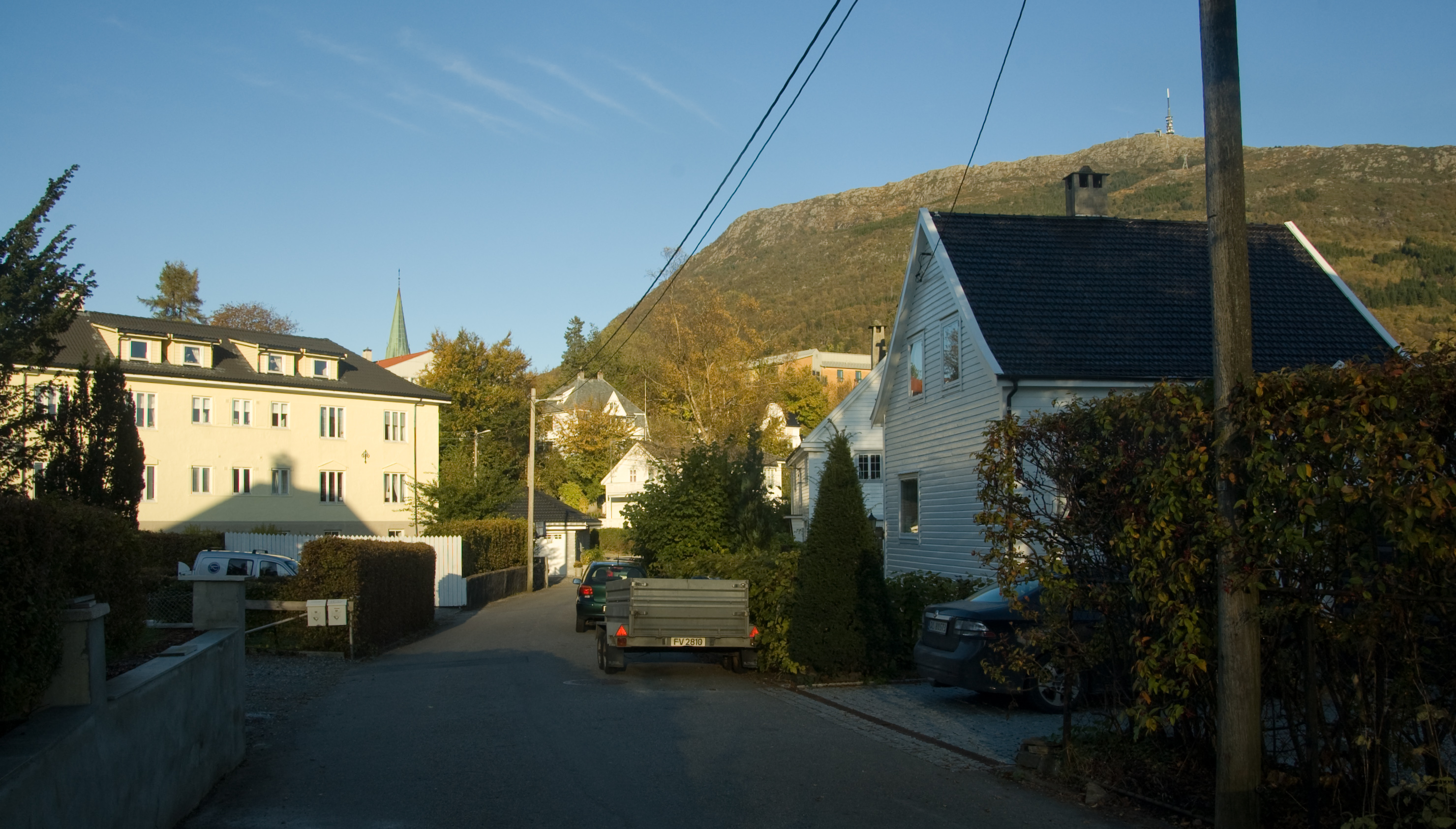 Arnoldus Reimers gate, a street in Bergen, Norway.